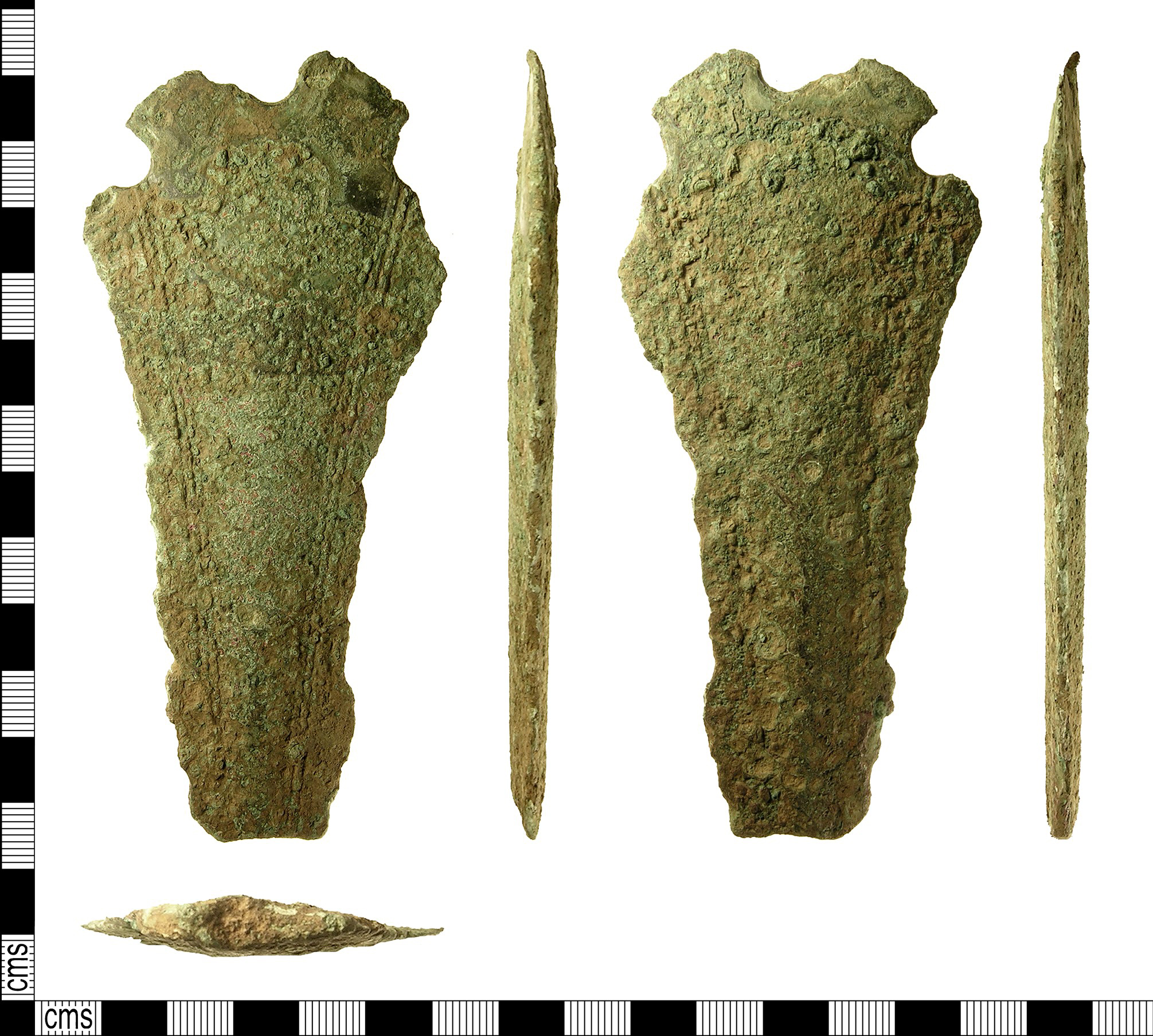 An incomplete cast copper alloy dagger of the Early Bronze Age (c. 1700-c. 1500 BC). The dagger is a Camerton-Snowshill type. In plan, it has an ogival-shaped outline and a central mid-rib on both faces. In cross-section it is lozenge-shaped. Three parallel grooves either side of the rib follow the ogival outline. The blade was attached to the hilt by means of three large rivets. These are missing and the rivet holes are incomplete due to breaks or possibly corrosion. The base of the hilt was characteristically omega-shaped. Evidence for this can be seen on one face due to the differential corrosion. It is evident that the base of the hilt protected the surface from corrosive elements to some extent as the surface is better preserved in this area where the hilt was situated. Just below the position of the hilt base there is a dark horizontal band of staining or differential corrosion which may represent the position of the scabbard mouth. This dagger is in poor condition. It is severely corroded and has numerous corrosive scabs and is also pitted overall. Recent chips are visible along both edges of the blade. The break near the blade point is old. The mid-rib of these types of daggers is often decorated with a dotted or pointillé pattern. No pattern is visible on this example. However, such a pattern may have existed prior to the surfaces becoming corroded. 118.7 x 52.7 x 6.9mm. Weight: 121.18g. Similar examples are known from graves and hoards, including those from the Arreton Down hoard; Collingwood Ducis: barrow G4; Chippenham: barrow 1; Snowshill: barrow G.5; the Stanton Harcourt burial; Wilsford: barrow G.56 and the Ebnal hoard (Gerloff 1975: plates 15-19). Gerloff, S, 1975, The Early Bronze Age Daggers in Great Britain and a Reconsideration of the Wessex Culture (C.H.Beck’sche Verlagsbuchhandlung, München).